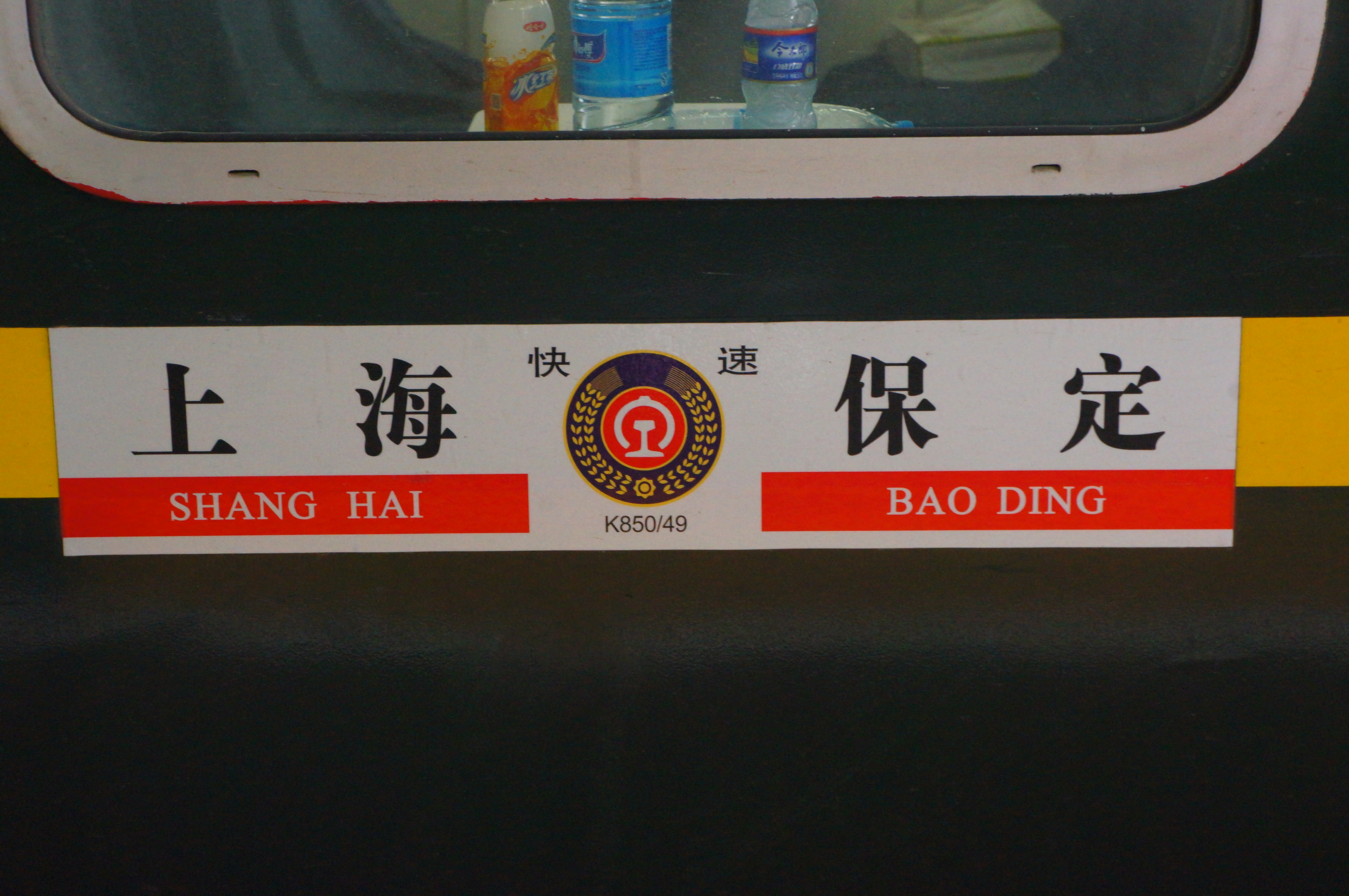 K849 850 infoboard in 201705. Taken at SHA.